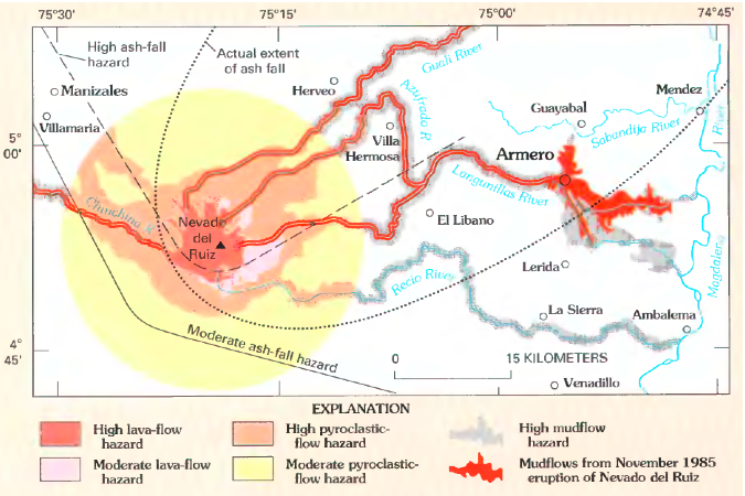 Volcanic hazard map for Nevado del Ruiz. Lahars from 1985 eruption (which killed around 23,000 people) shown in red. Original caption: "Map showing hazards expected from an eruption of Nevado del Ruiz, Colombia. Such a map was prepared by INGEOMINAS (Colombian Institute of Geology and Mines) and circulated 1 month prior to the November 13, 1985, eruption of Nevado del Ruiz. Map shows danger from mudflows in the valley occupied by the town of Armero, Colombia, as well as areas affected by the hazards that resulted from this eruption. Circle denotes 20-kilometer limit."